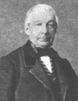 Joan Güell i Ferrer (1800-1872) was a Catalan economist and businessman